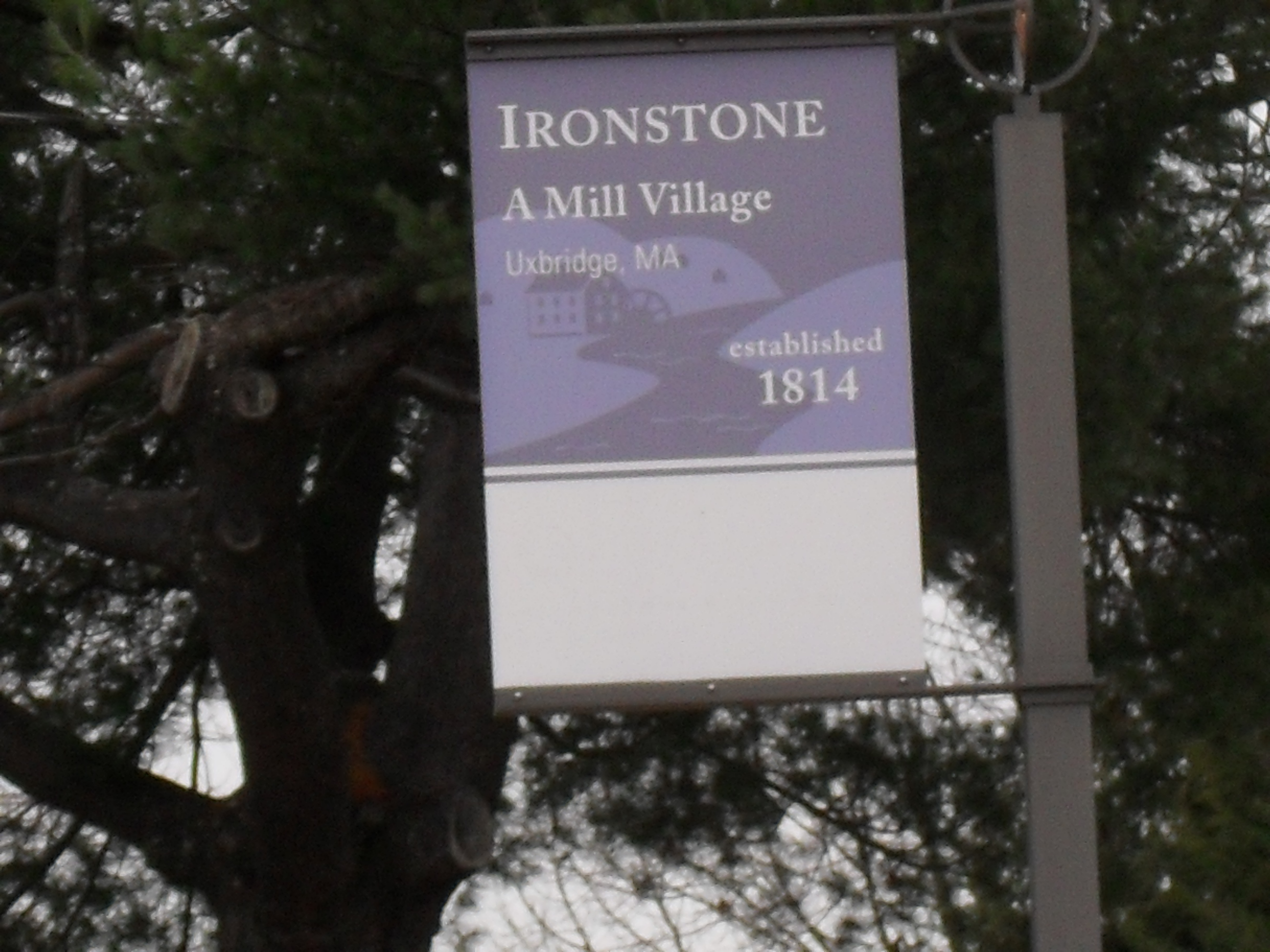 Ironstone, MA, a mill village from 1814. Blackstone Valley National Heritage Corridor, Uxbridge, MA